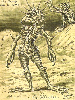 Drawing by Georges Méliès for his film A Trip to the Moon (Le Voyage dans la Lune). It depicts two Selenites (lunar inhabitants).